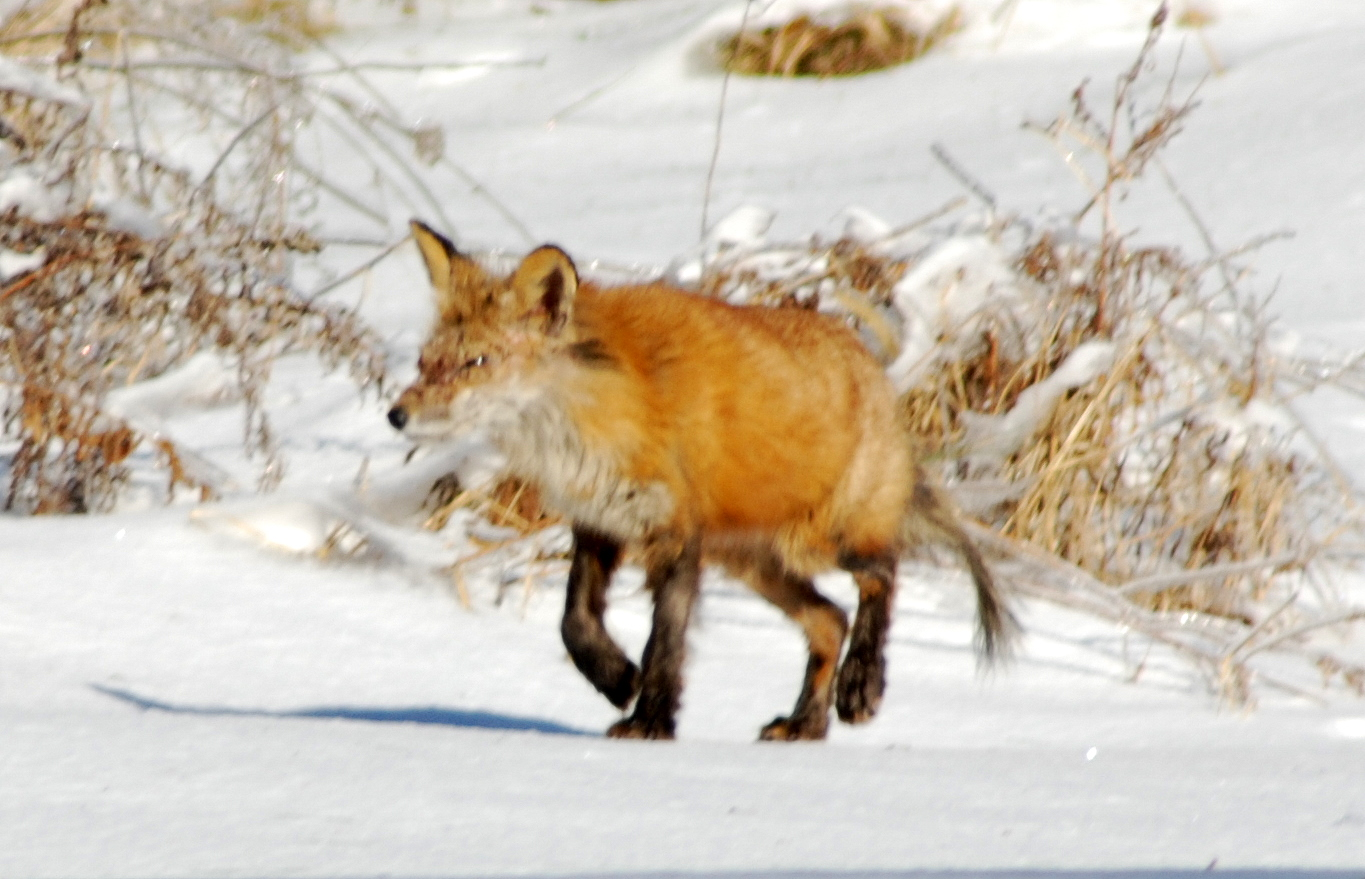 Red fox (Vulpes vulpes) on the hunt